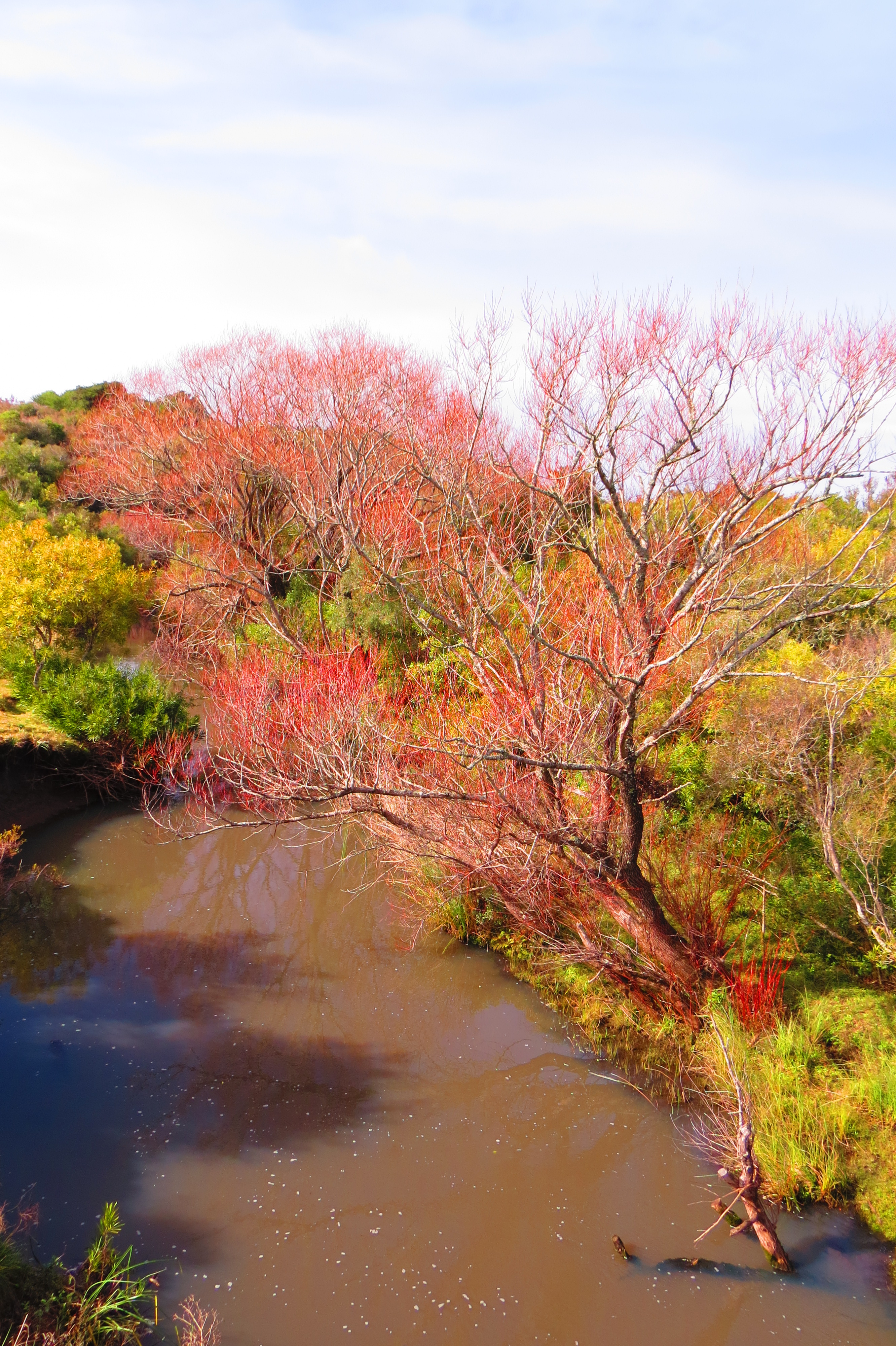 Bosque nativo en "galería".